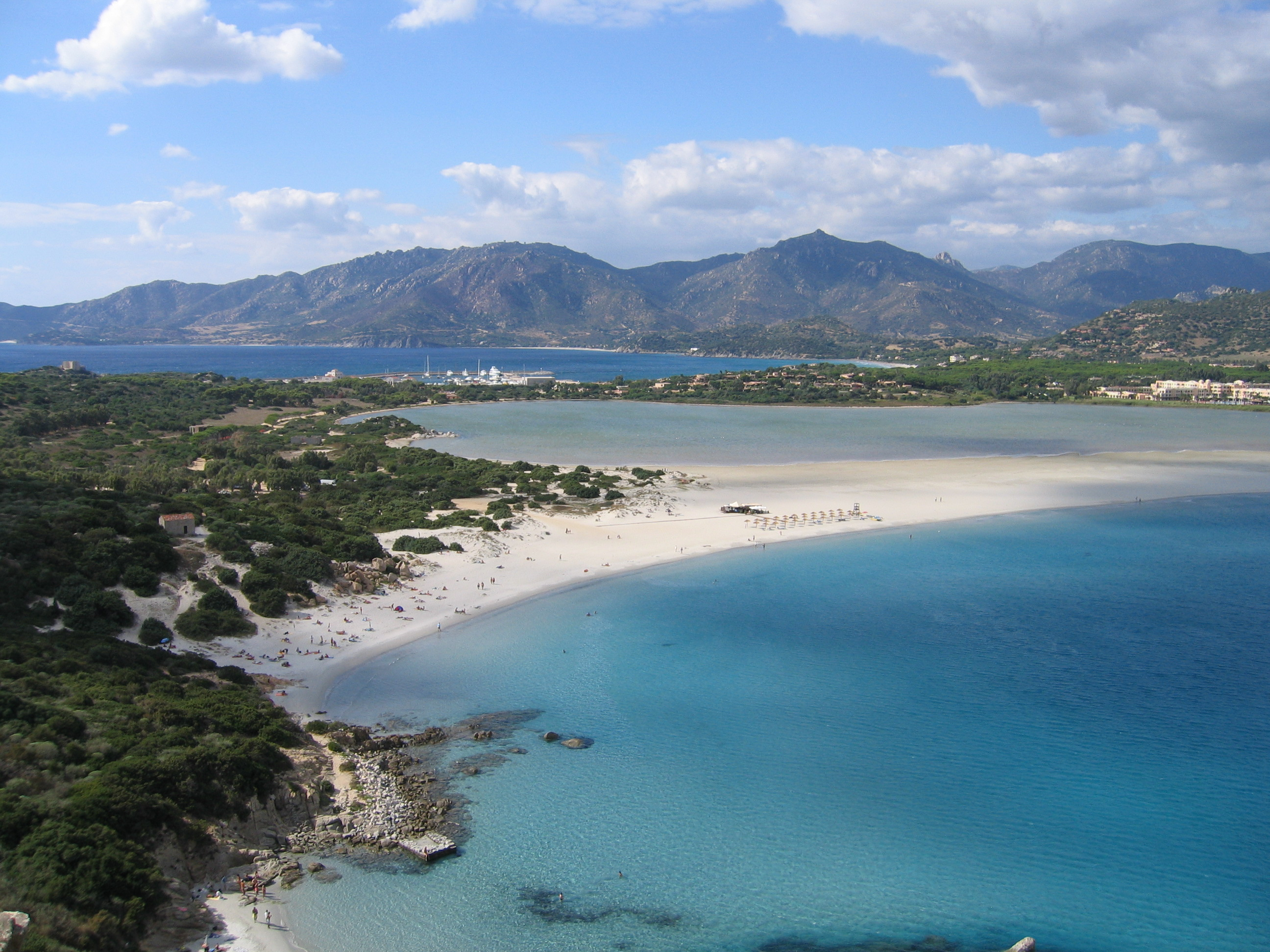 Another shot of the lagoon beach (best beach in Sardinia).